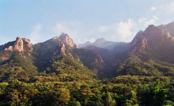 The mountains around Seorak National Park, South Korea